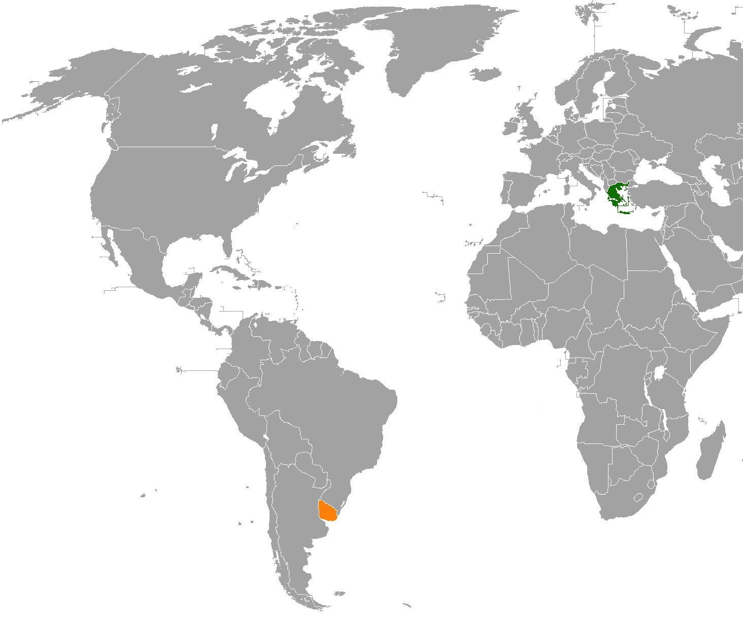 Greece-Uruguay locator map.